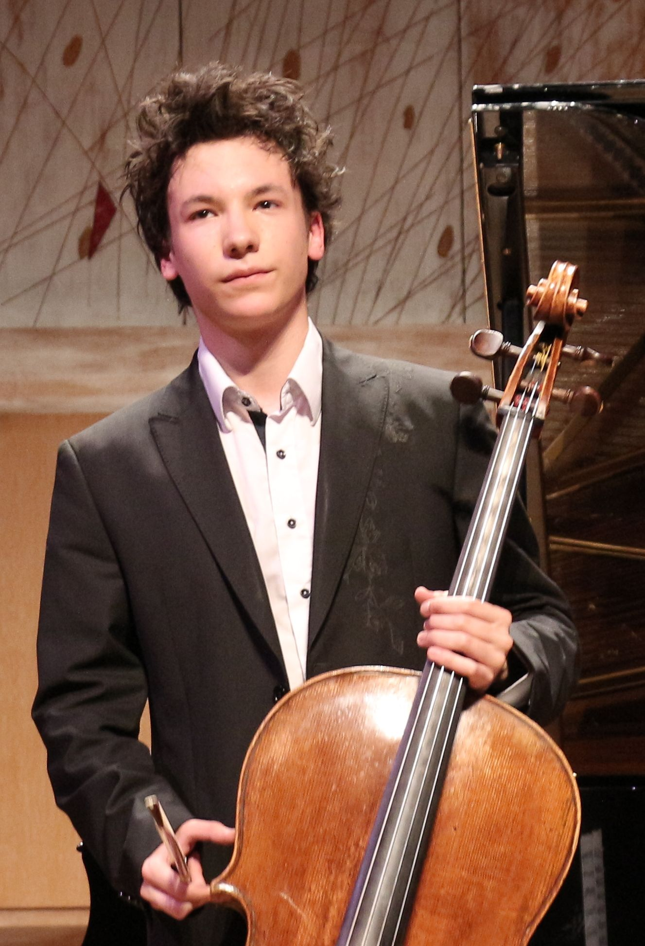 Edgar Moreau at Cité de la Musique (Paris), at the end of a concert